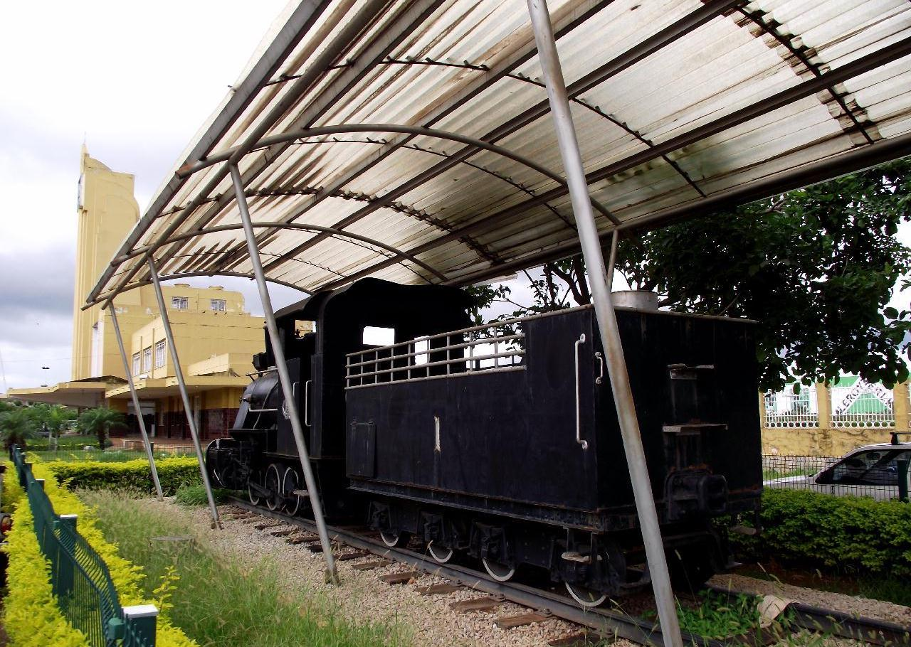 Old steam locomotive in Railroad of Goiás - Goiânia (GO).